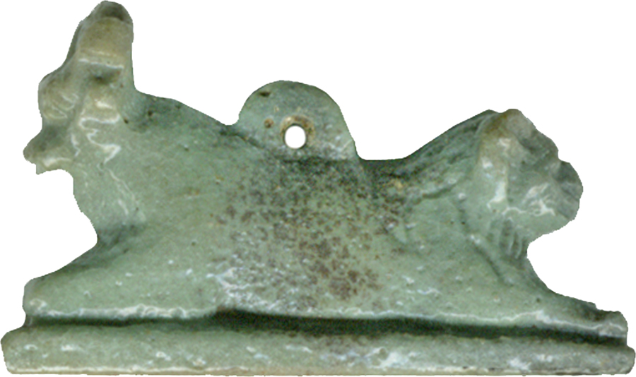 This pendant shows the head of a lion on one side, and the head of a bull with a sun disk on the other side. It may have been a variation of amulets which displays two combined lions who represents the horizon. This variation adds the idea of the holy Apis bull who was particularly worshipped in the Late and Greco-Roman Periods.